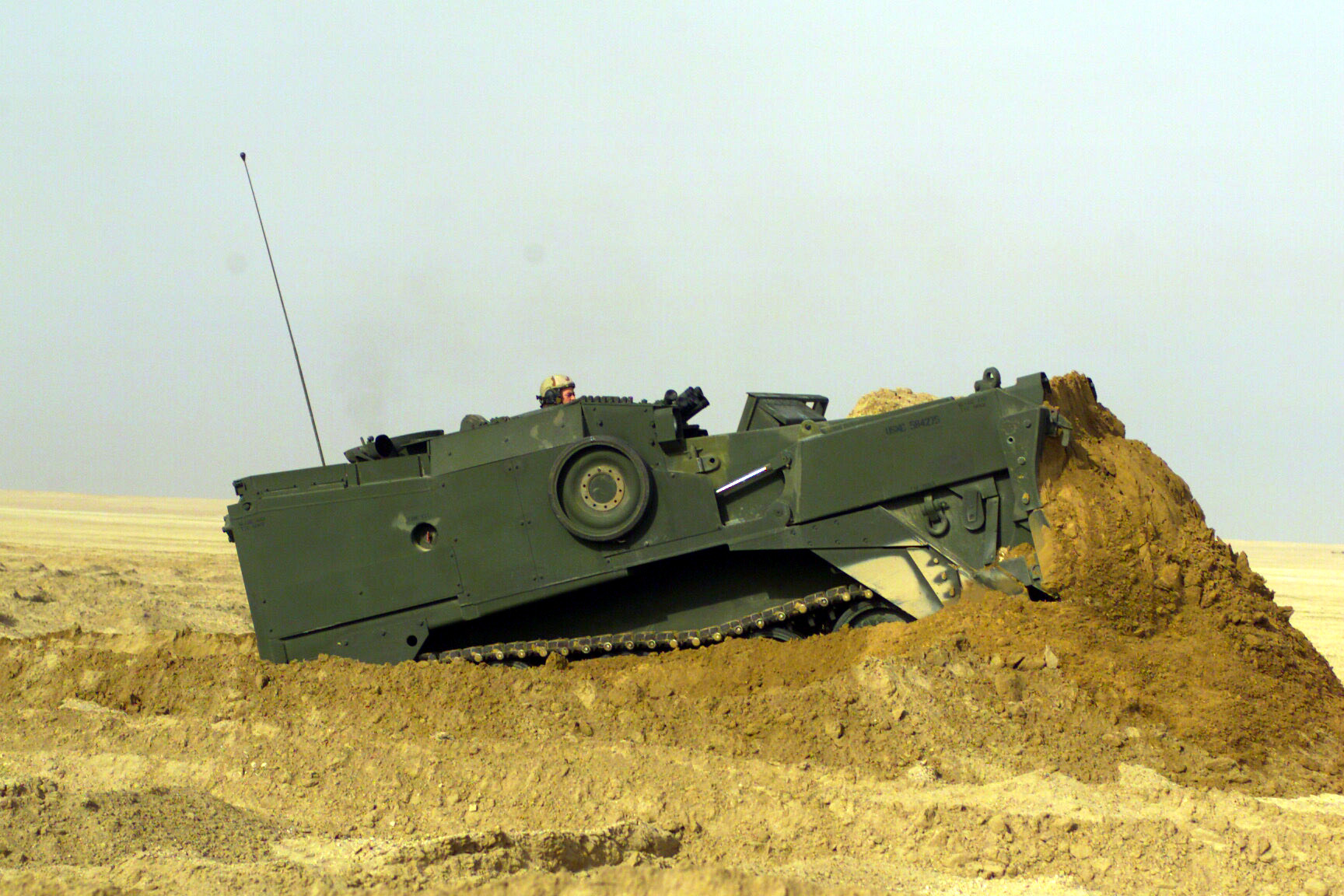 Camp Coyote, Kuwait (Feb. 8, 2003) — U.S. Marine Pfc. Shawn Janecek, assigned to Charlie Company, 1st Combat Engineer Battalion, drives an M-9 Armored Combat Earthmover (ACE) to create tank crossing points at Camp Coyote. The M-9 provides a wide variety of front line combat support operations, including the preparation fighting positions, and the clearing of anti-tank ditches.